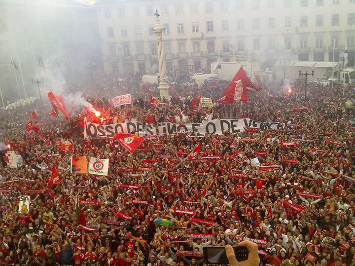 Benfica fans celebrating their team’s championship in 2009/10